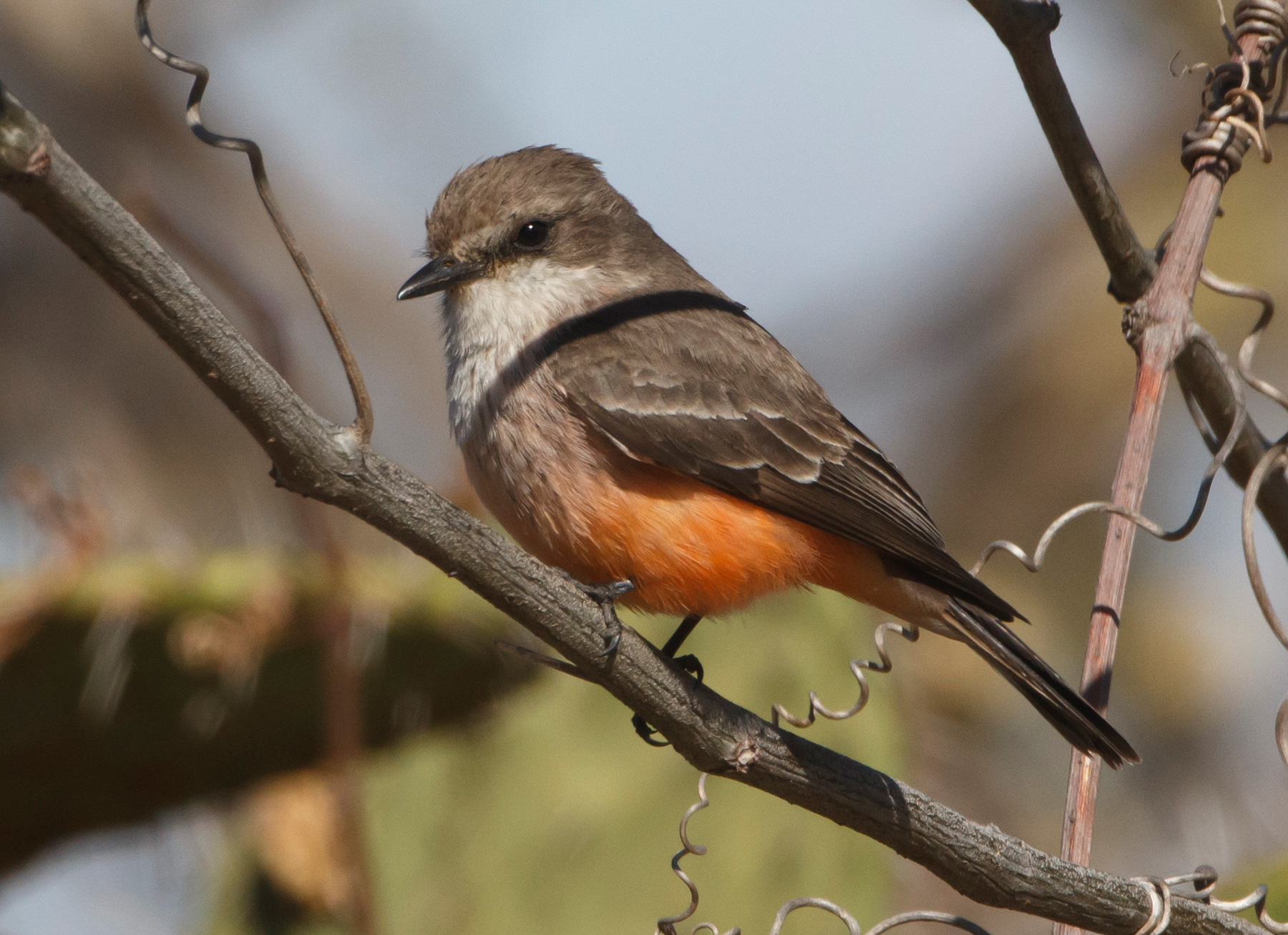 Vermillion flycatcher Pyrocephalus obscurus, female or immature male, San Augustin Etla, Oaxaca, Mexico